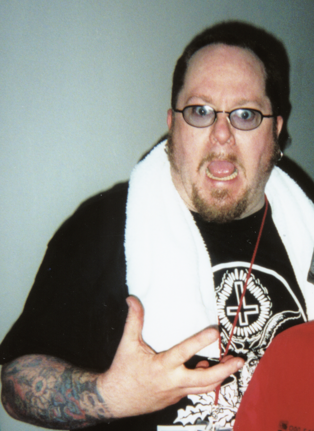 Bassist Casey Orr, formerly Beefcake the Mighty of Gwar